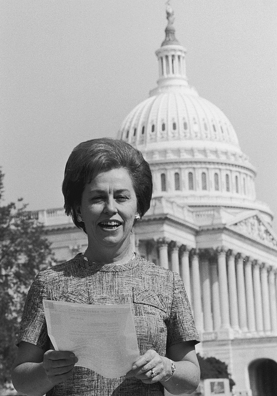 Representative Martha Griffiths (D-Mich.), Washington, D.C.